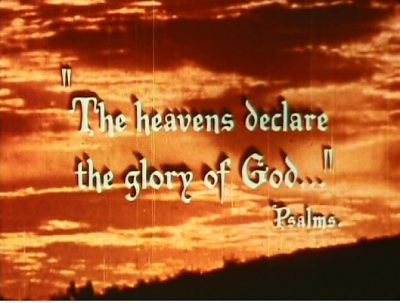 Screenshot from the beginning of the film Our Mr. Sun (1956). The screenshot is of a quotation from the Bible overlaid on footage of a sunrise.